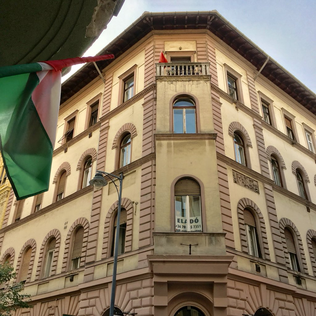 Adolf Greiner's apartment building in Horanszky utca